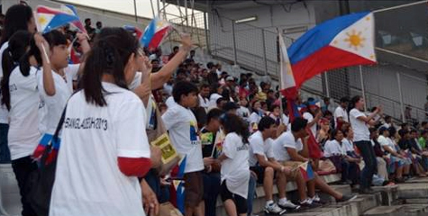 Fans of the Philippine women’s football team in attendance at the Bangabandhu National Stadium for the Bangladesh v. Philippines match held on May 25, 2013.